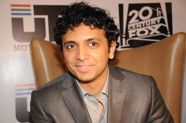 M. Night Shyamalan announces The Happening